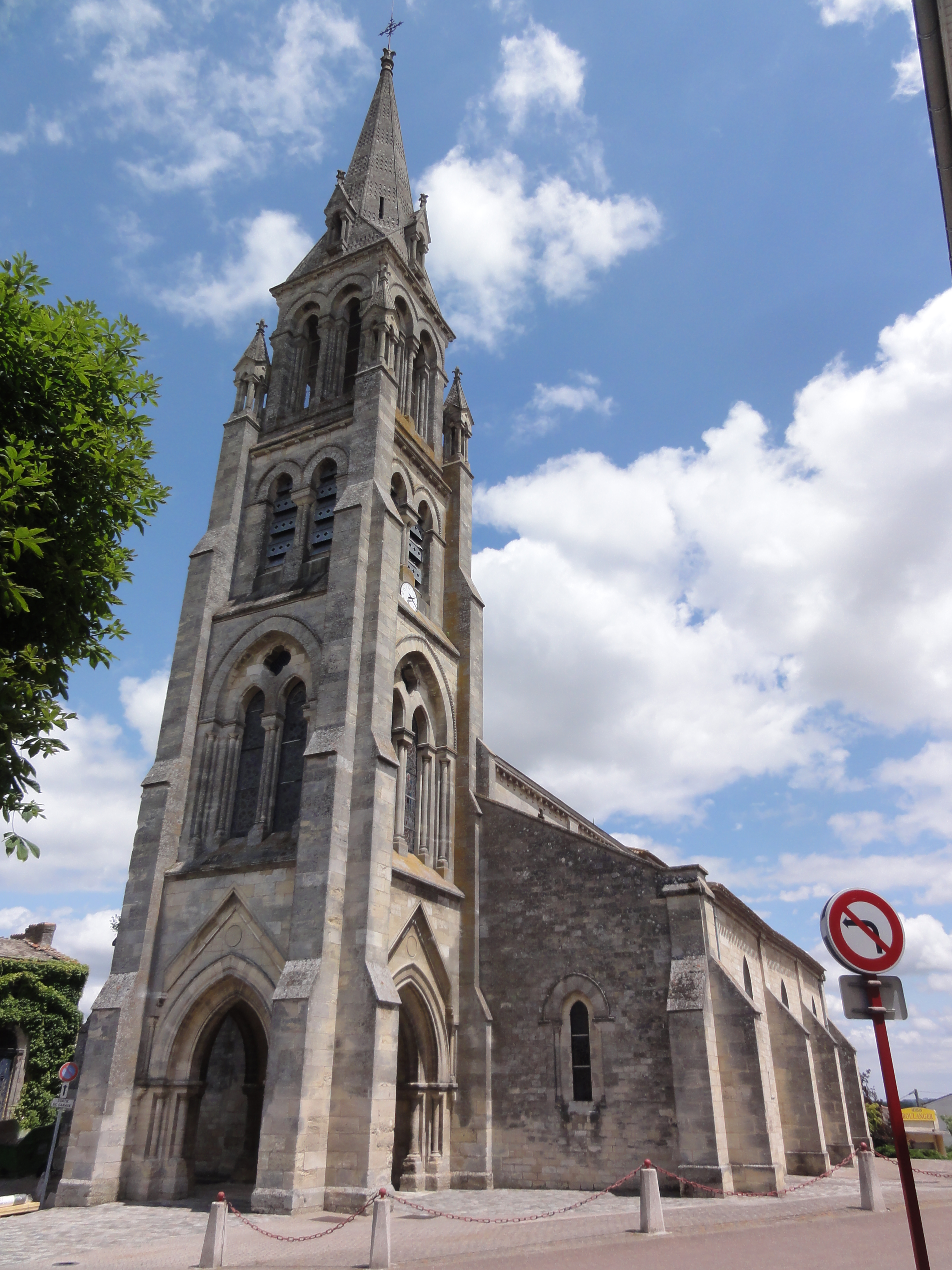 Bassens (Gironde) église Saint-Pierre, tour PA00083126